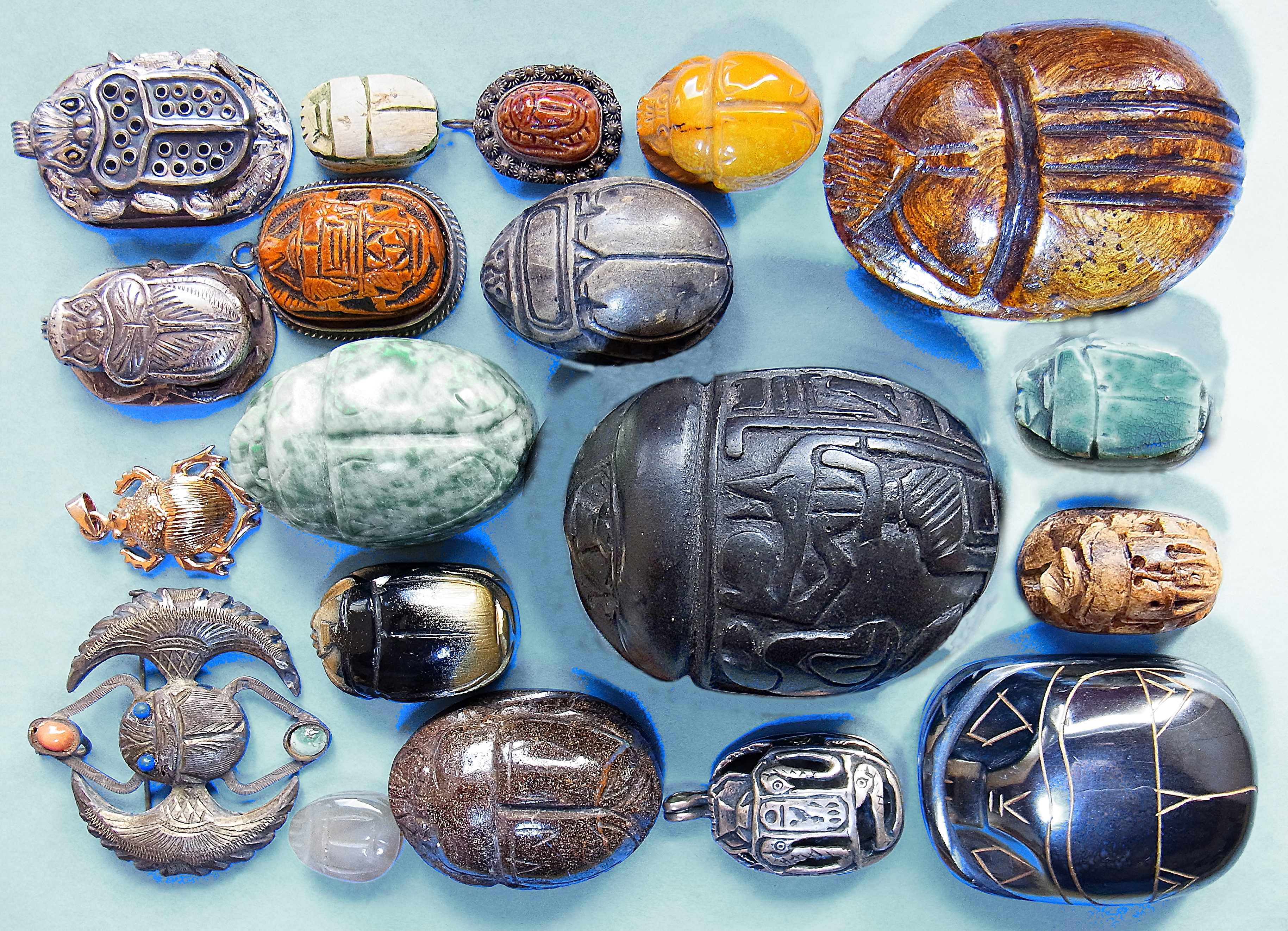 collection of Scarabaeus